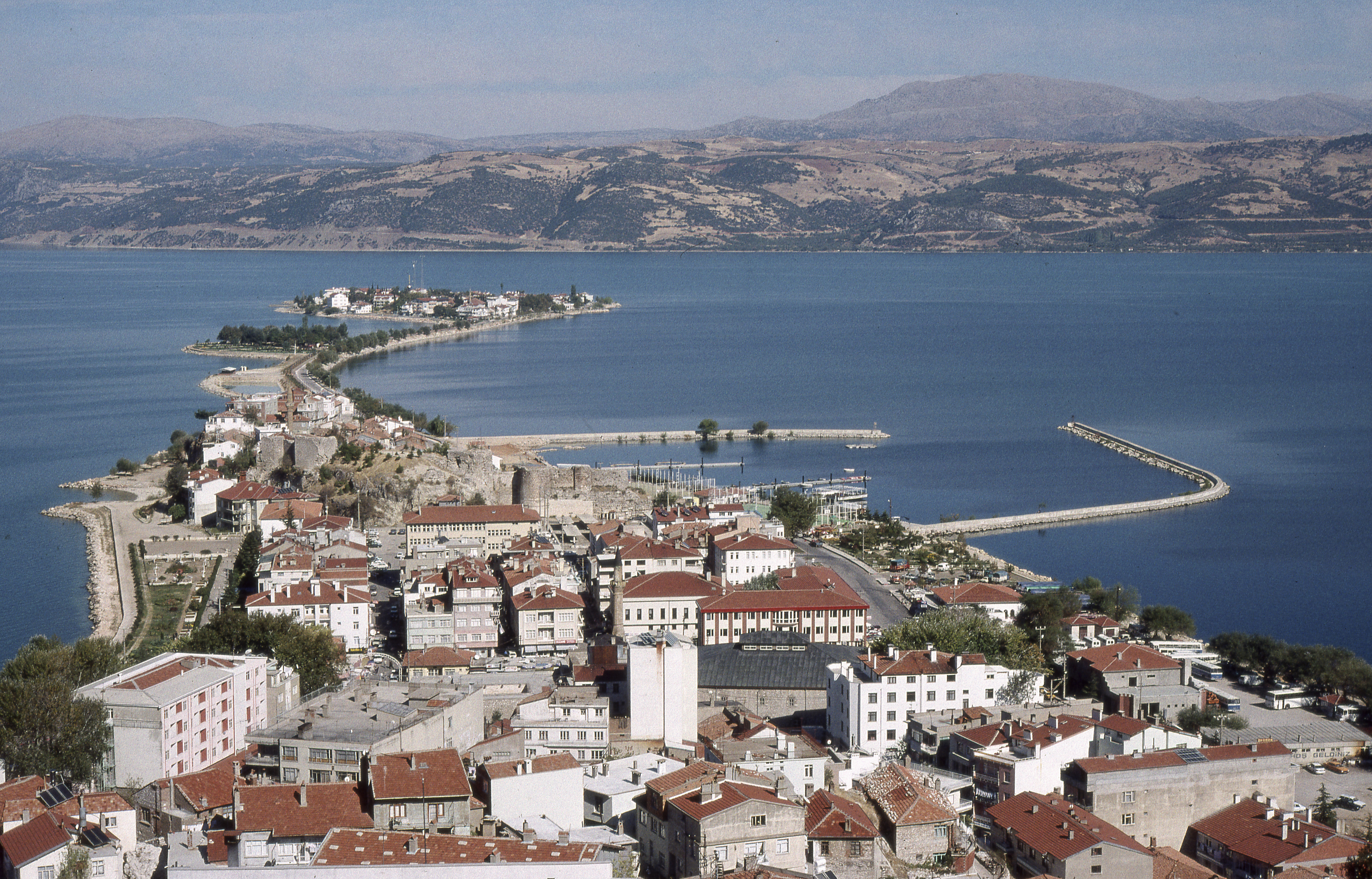 One of some pictures from a visit in 1998. Many show the setting relative to the lake. Some show other aspects.